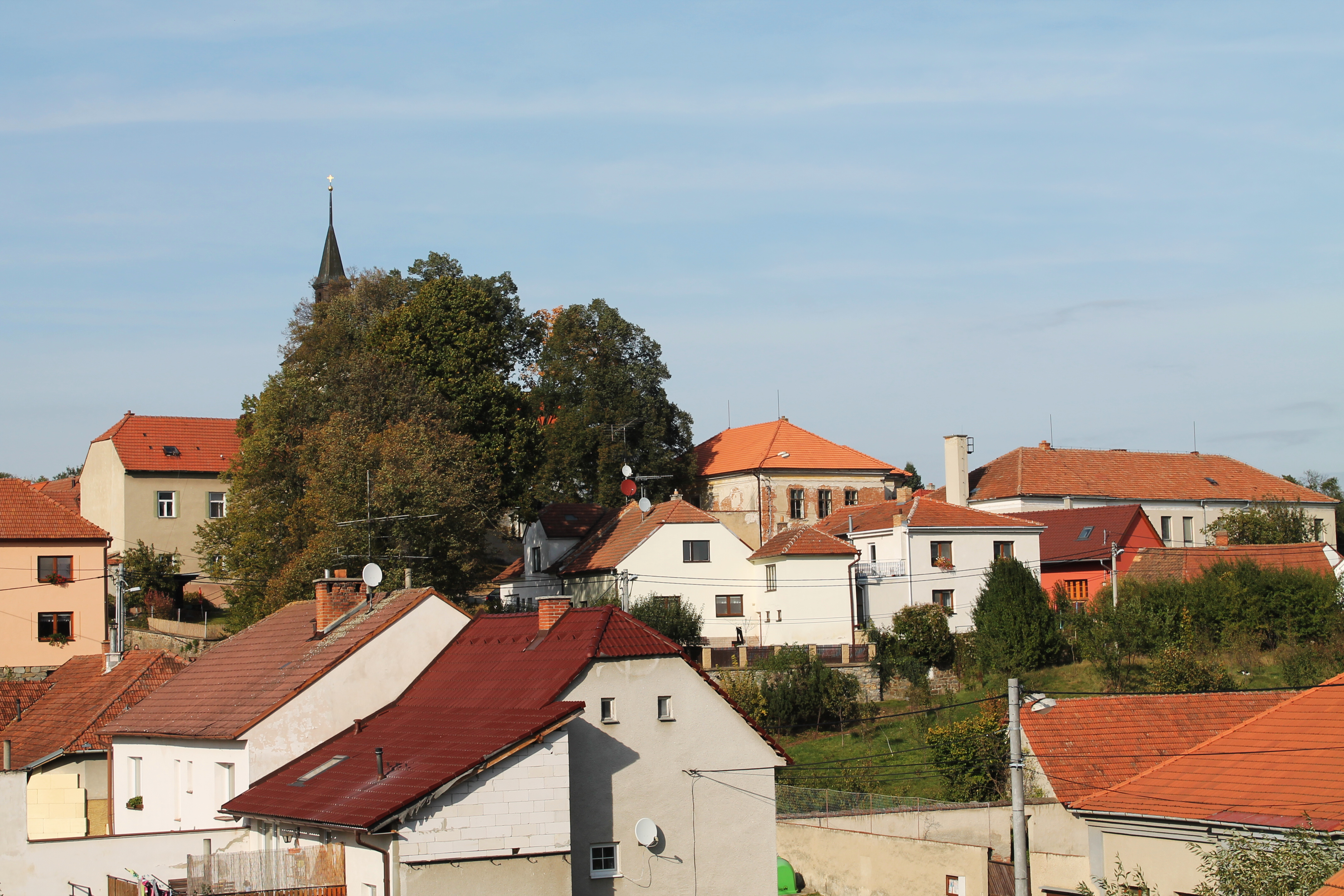 View to a place of former Deblín castle, Deblín, Brno-Country District, Czech Republic - Google Maps - Google Earth